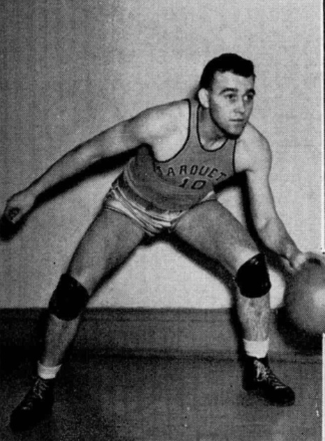 Marquette University basketball player Erwin Graf in 1939